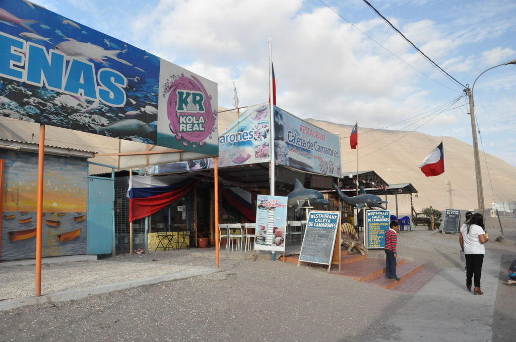 Cuya village, commune of Camarones